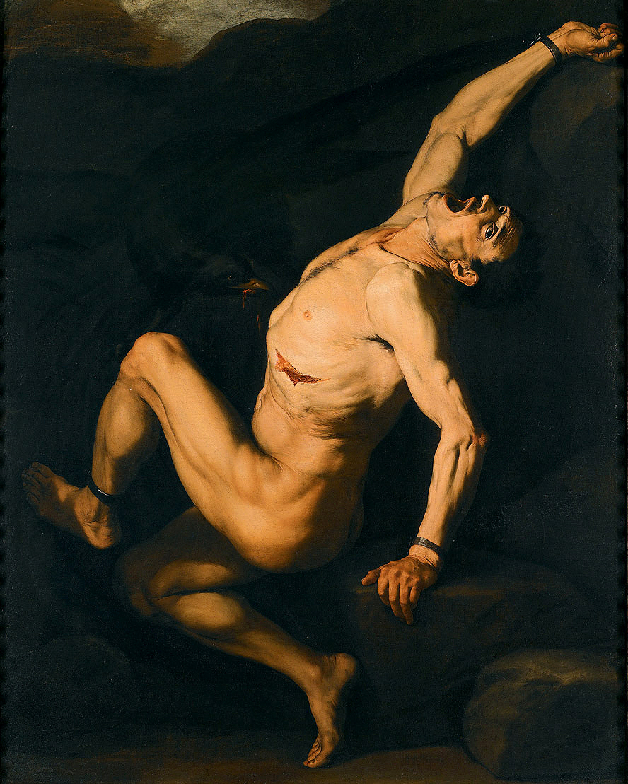 Prometeo (O/C, 193,5 x 155,5)